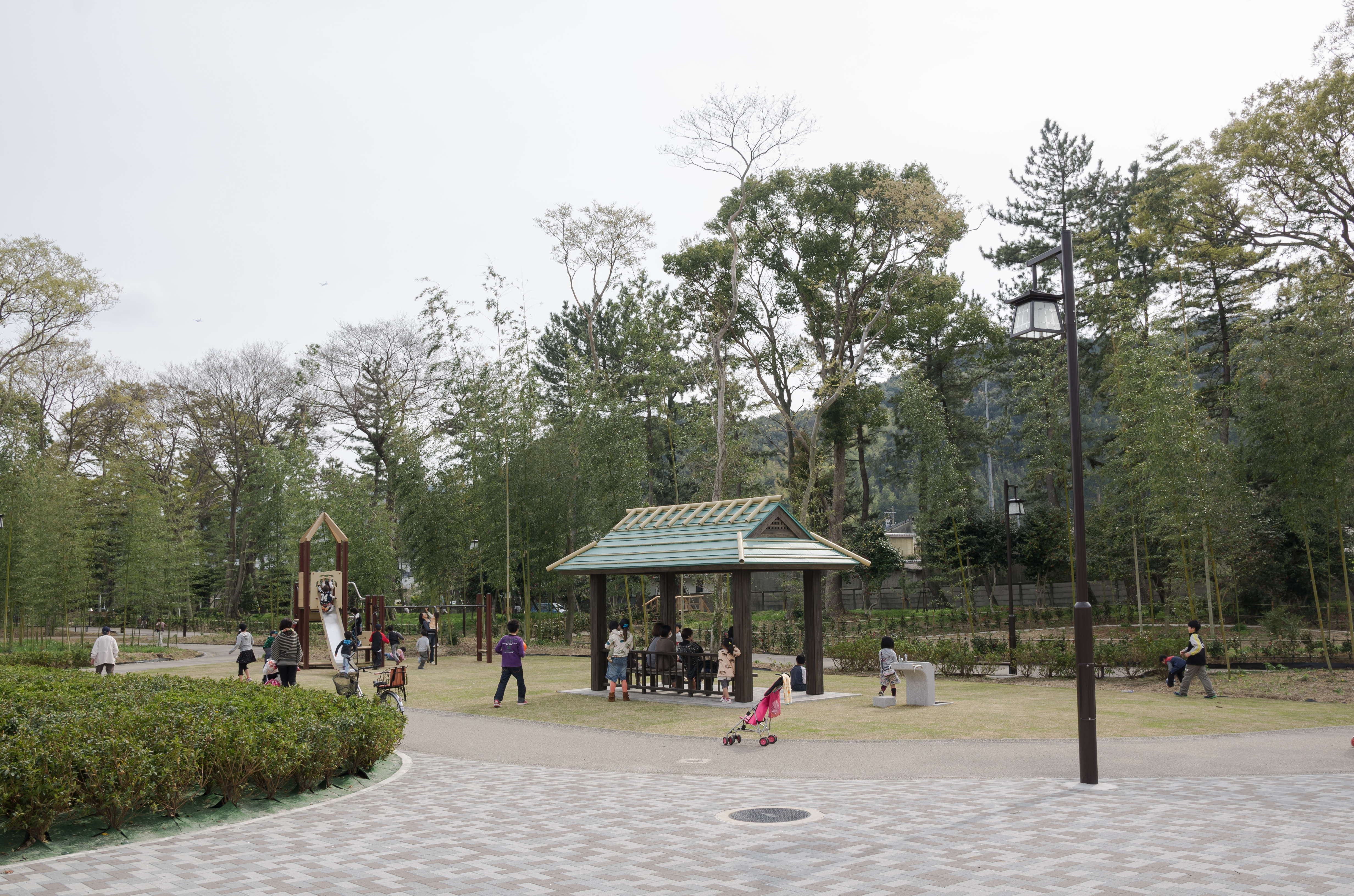 Goyu Matsunamiki Park in Toyokawa, Aichi, Japan